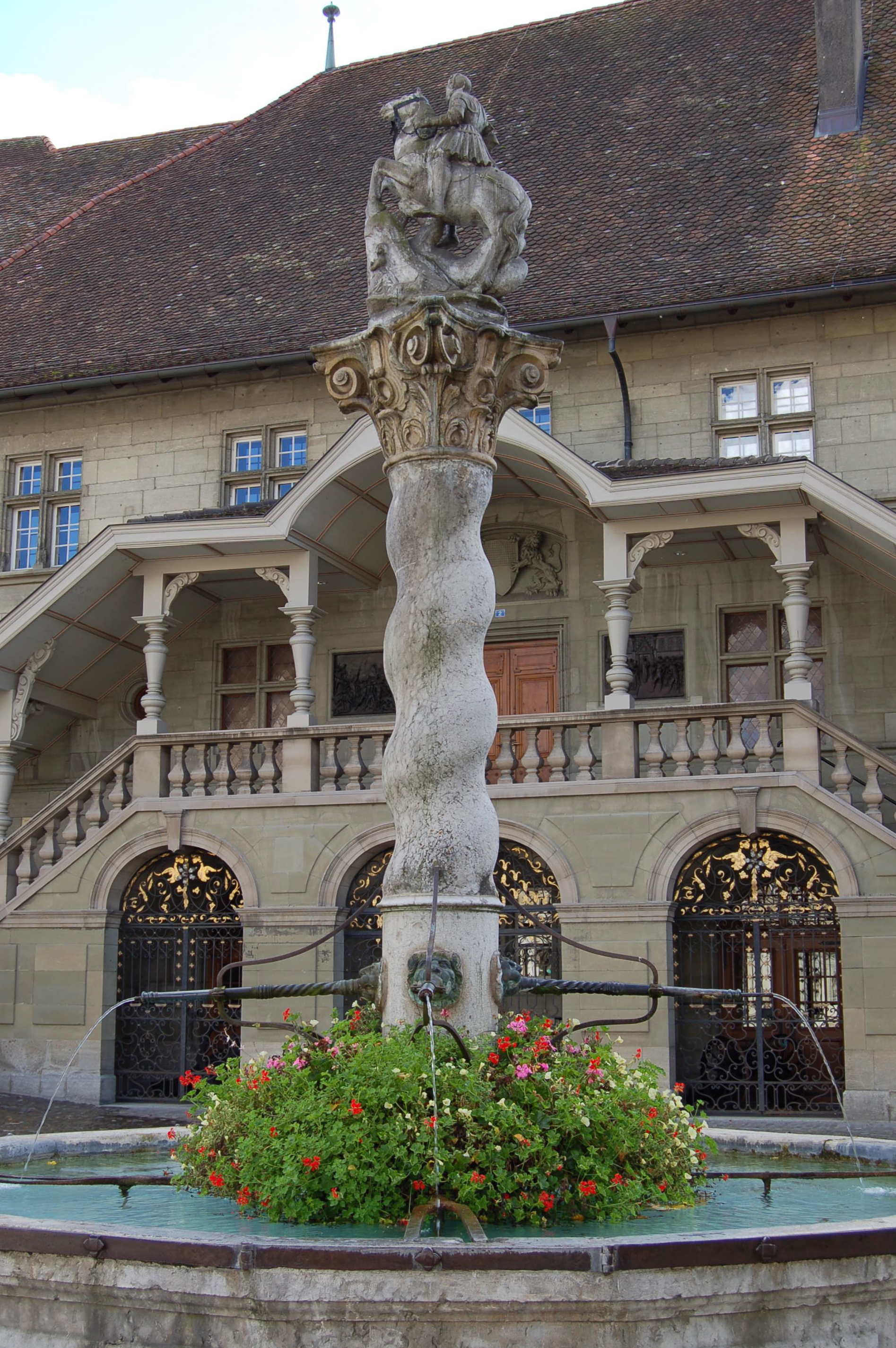 Fribourg, Switzerland